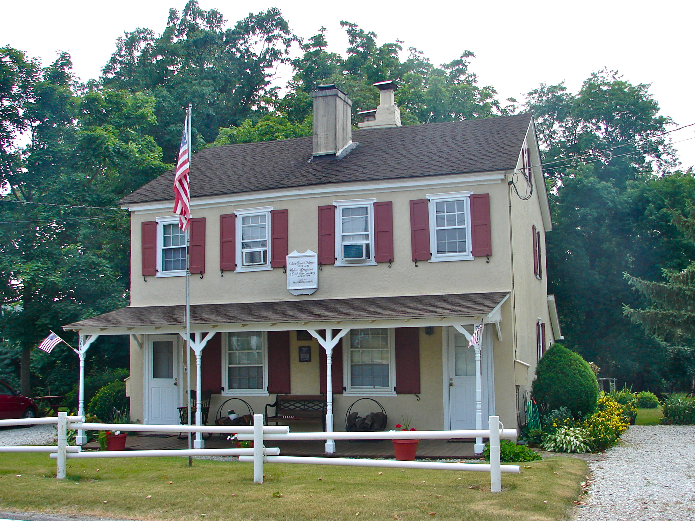 Chew-Powell House on the NRHP since March 27, 1975. At 500-502 Good Intent Rd. (good Quaker name for a road), Gloucester Township, Camden County, New Jersey. Chew is a very historic family name in the area.